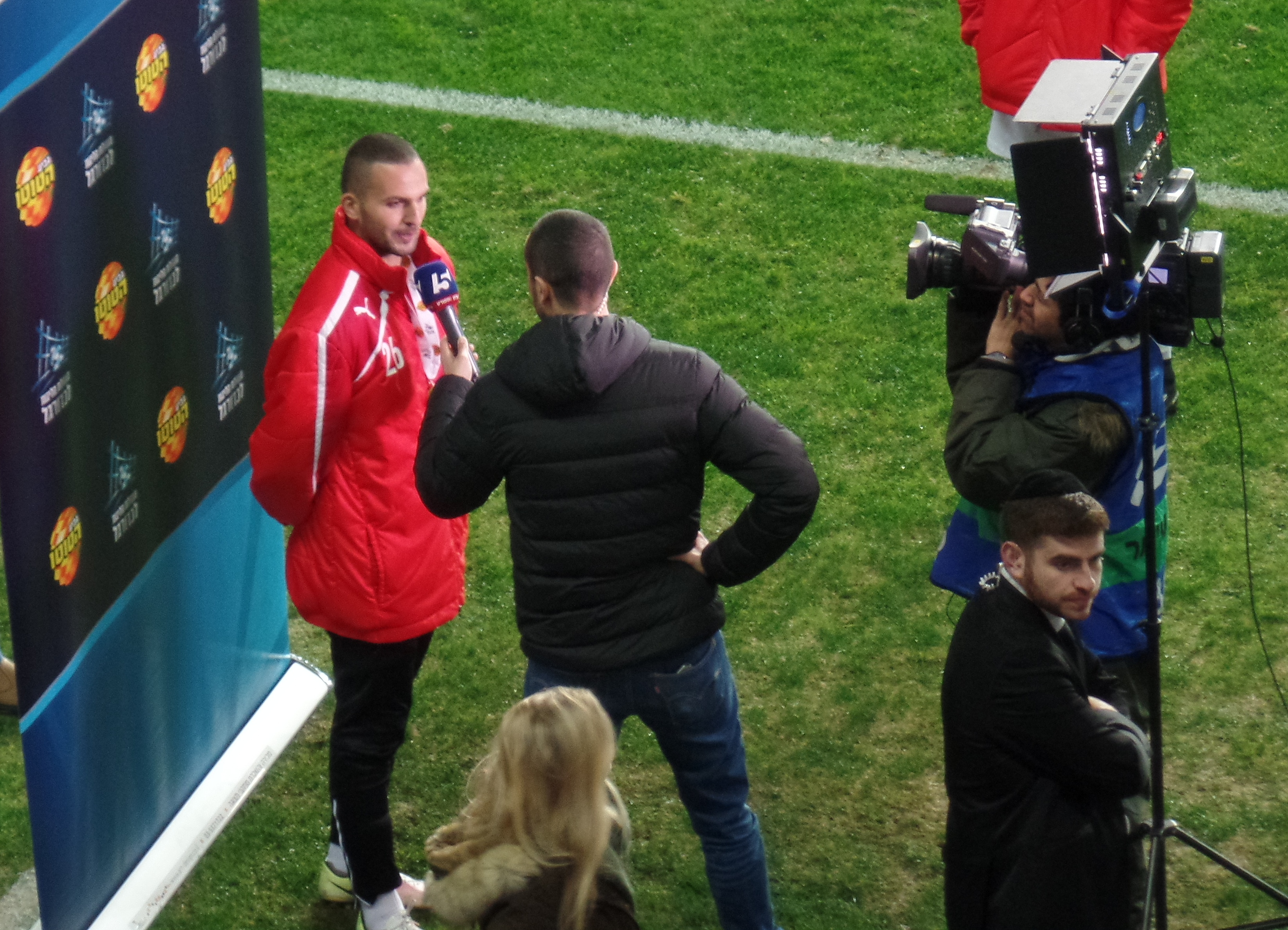 Ben Sahar SAMSUNG CAMERA PICTURES